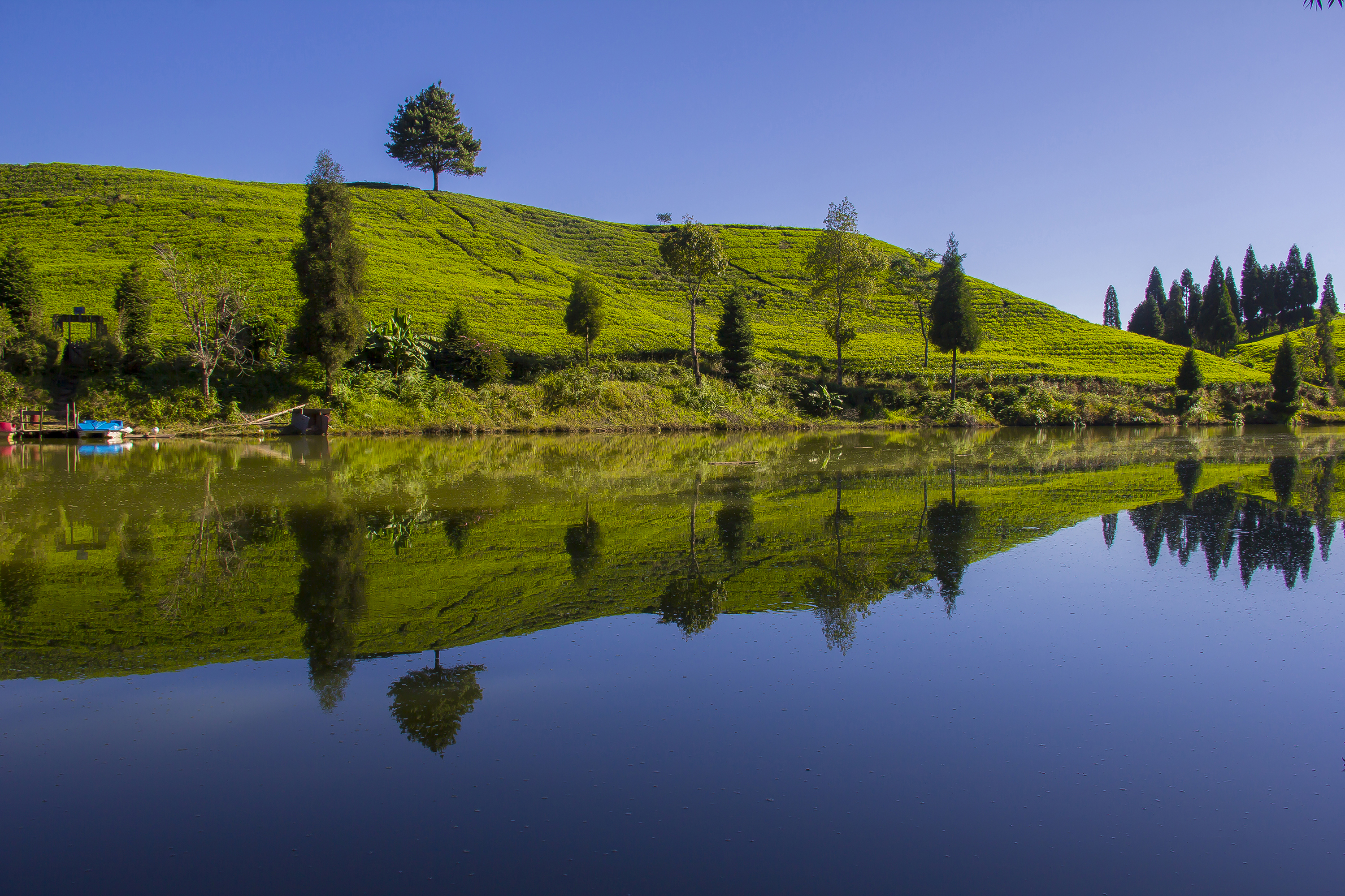 Reflection of Beautiful Landscape of tea garden in Antu Pokhari, Ilam.